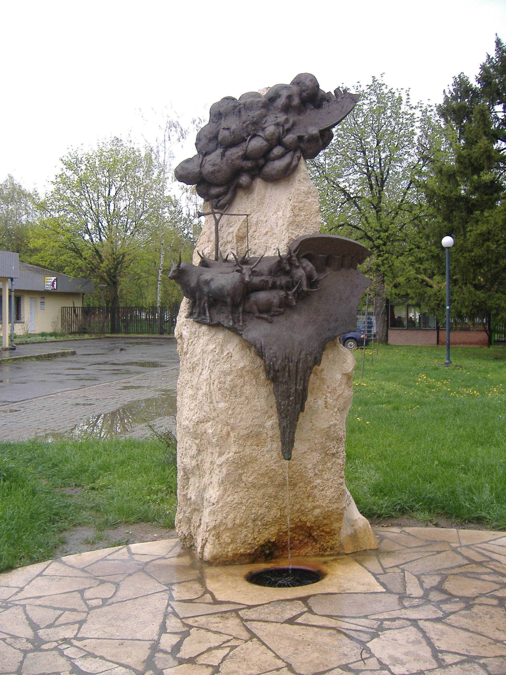 Fountain in Berekfürdő, Hungary.